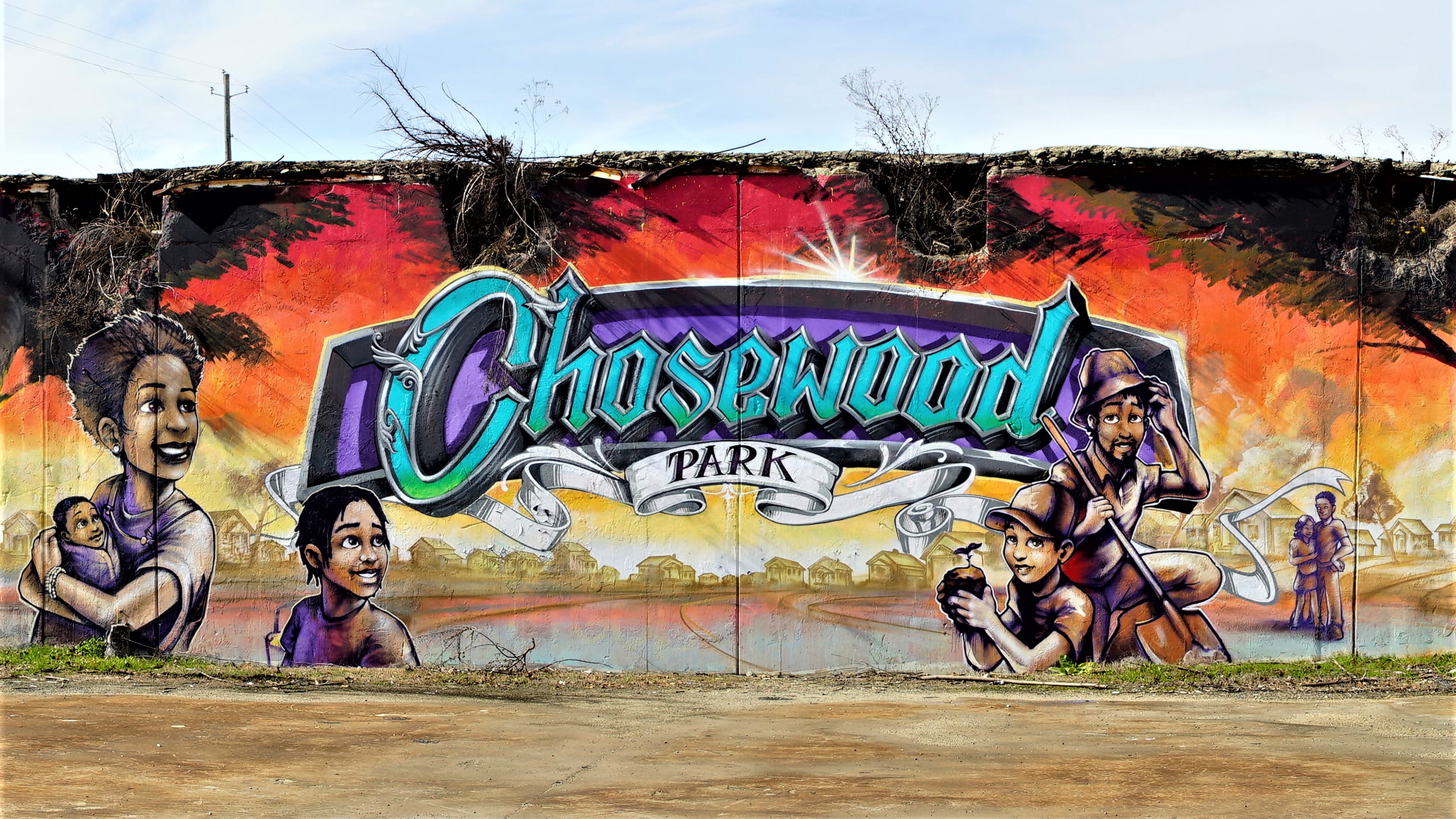 Cropped version of source. The description was: "A photograph I took of graffiti, not painted by me."